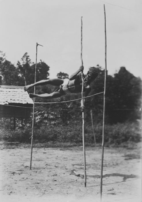 Pole-jumping by a Bahau-Dayak, Central Borneo.